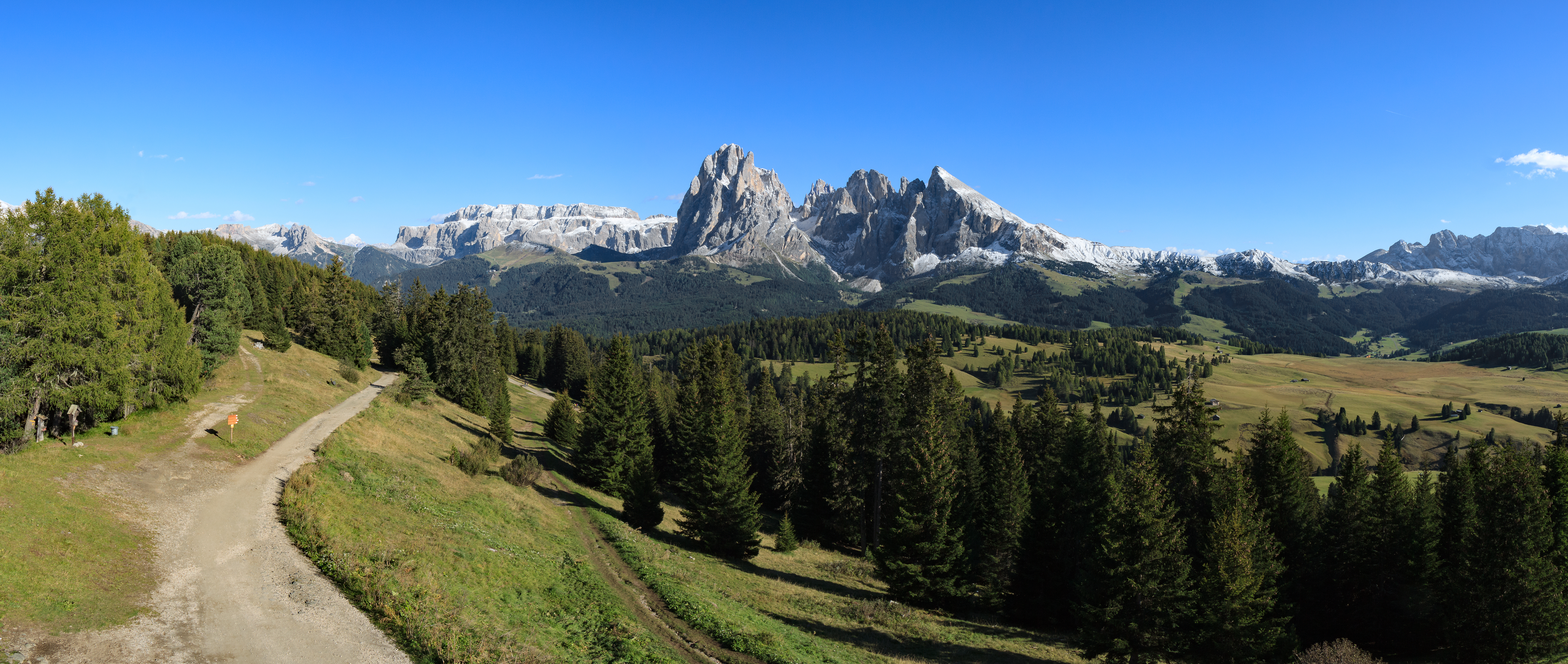 View from the Ristorante Mont Seuc to the eastern part of the Seiser Alm with the Sella Group, and the Langkofel Group, South Tyrol, Italy.